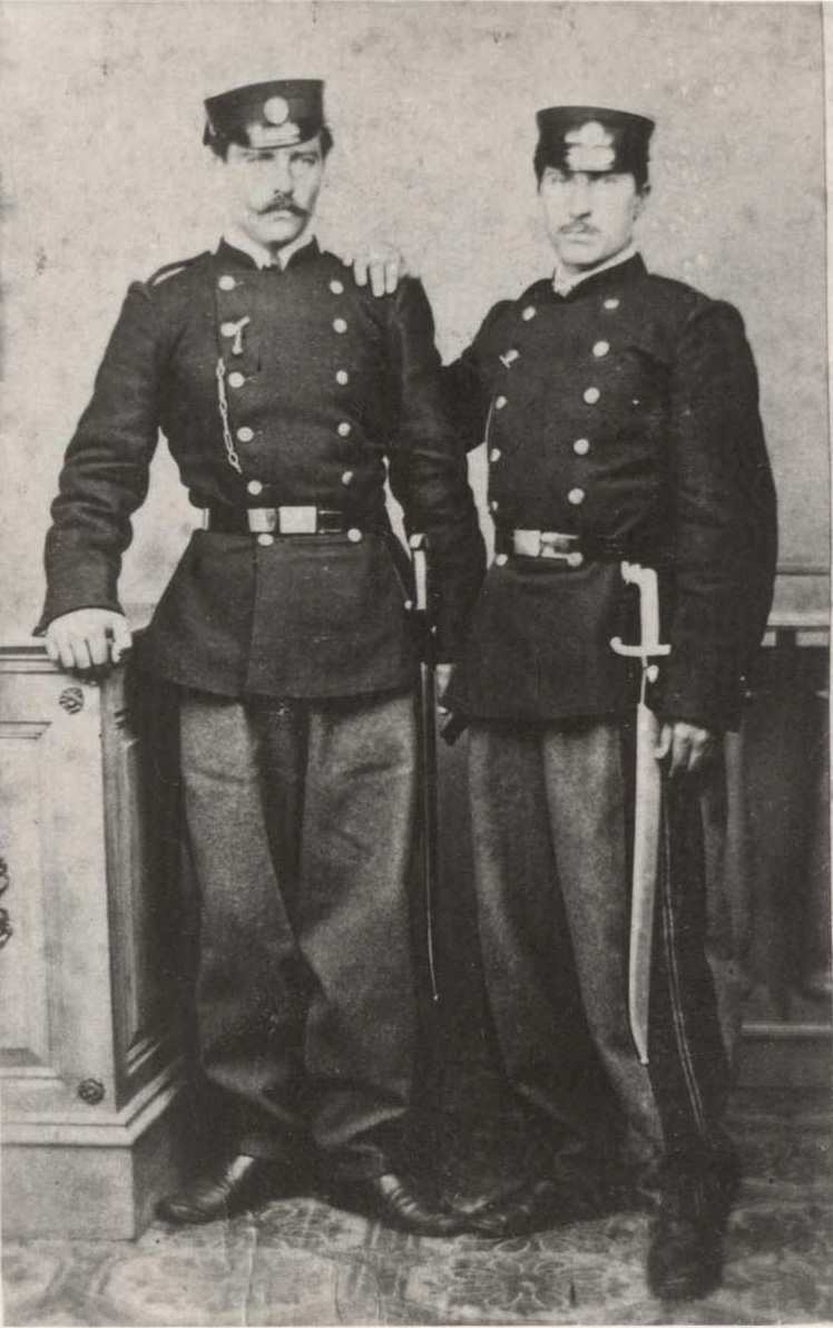 Petǎr Tihov Obretenov (1842-1868). Son of Tonka Obretenova. Participant in Second Bulgarian Legion.